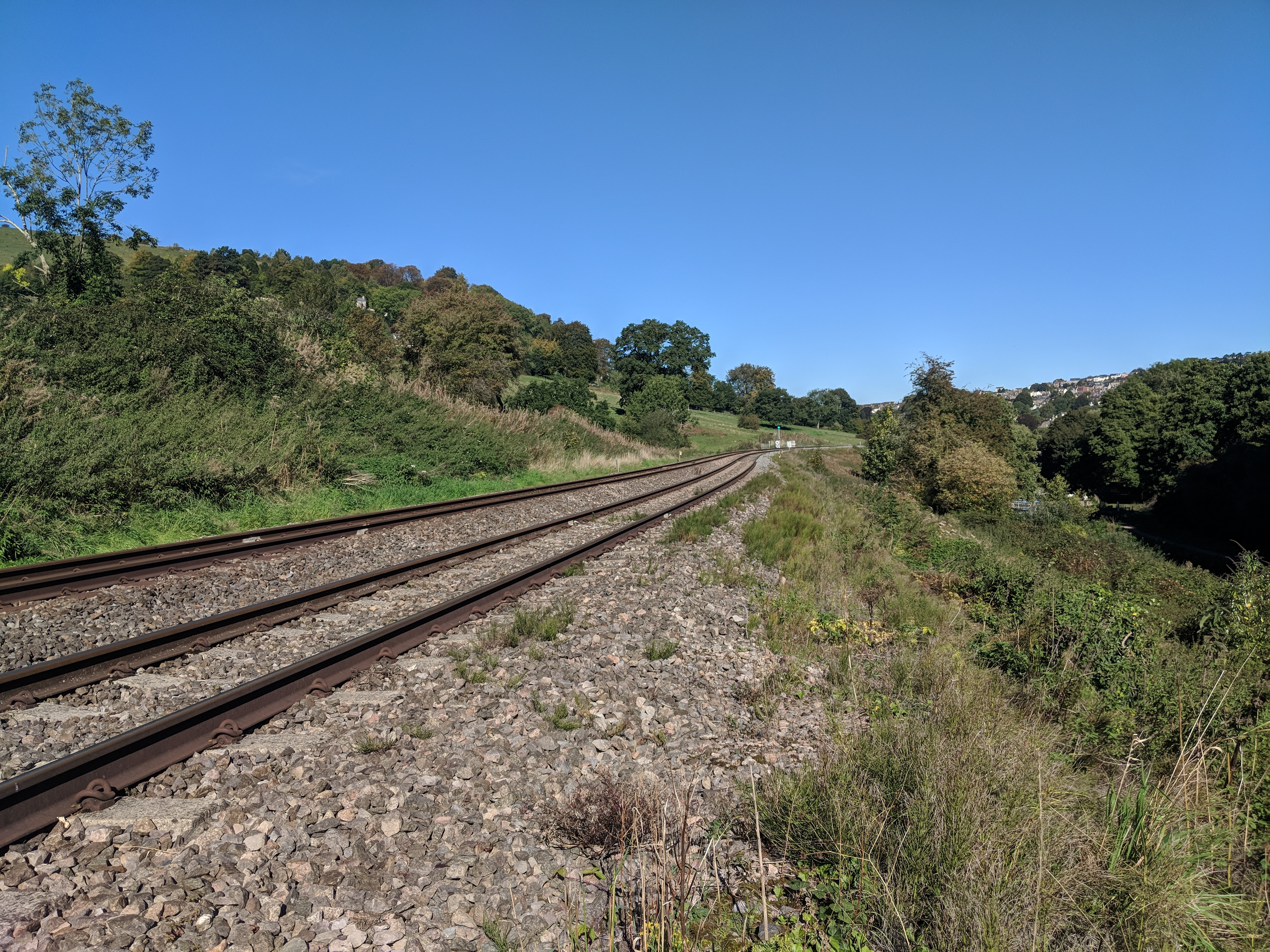 View of the Golden Valley line, looking towards Stroud.